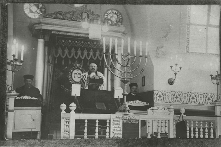 Description:Service in Randegg/Baden Creator/Photographer: Unknown Object Origin: Randeg/Baden Germany Medium: Black and white photographic print Date:1910 Repository:Leo Baeck Institute Parent Collection: Randegg; Jewish Community Collection Call Number: AR 2483 Rights Information: No known copyright restrictions; may be subject to third party rights. For more copyright information, click here. Find more information about this image and others at CJH Archives and Library Catalog.